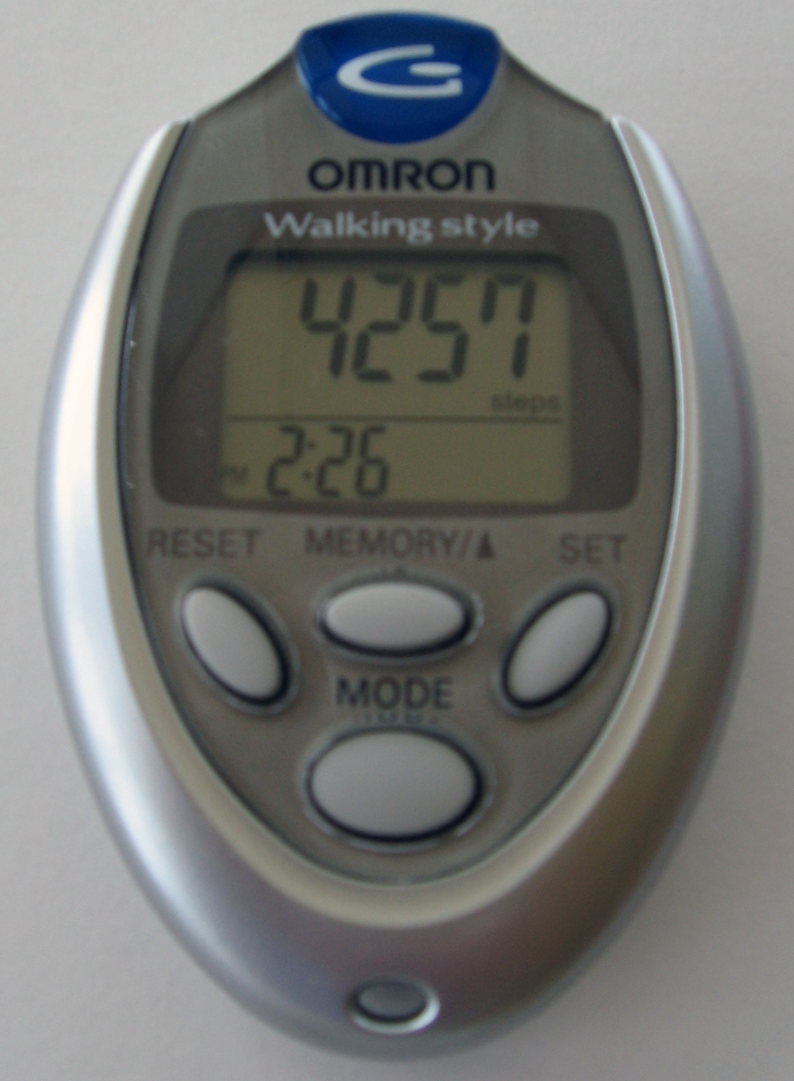 Pedometer omron HJ-112 user review